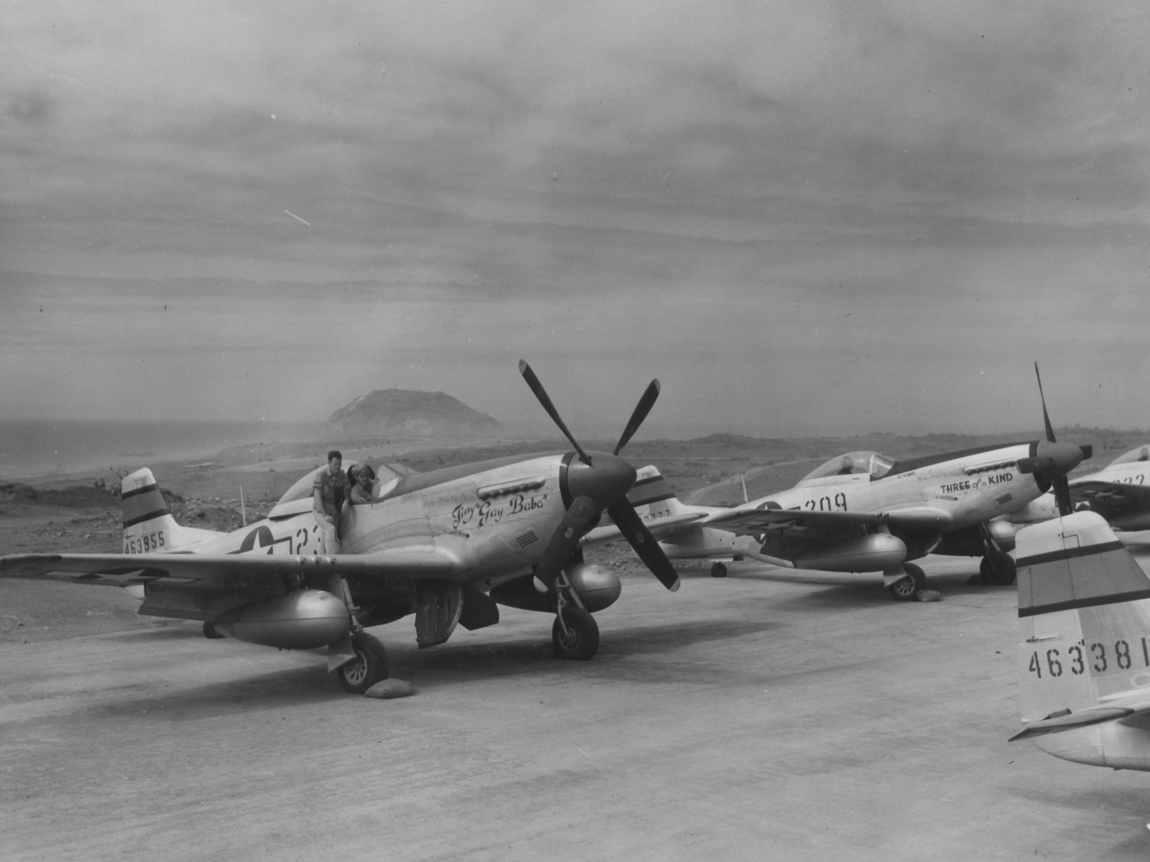 P-51Ds of the 21st Fighter Group at North Field Iwo Jima 1945, Note Mount Suribachi in the background. Tail of North American P-51D-20-NA Mustang 44-63381 Identifiable, was lost Aug 5, 1945